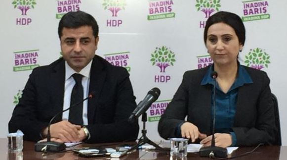 HDP co-leaders Selahattin Demirtaş and Figen Yüksekdağ giving a statement after the November 2015 general election